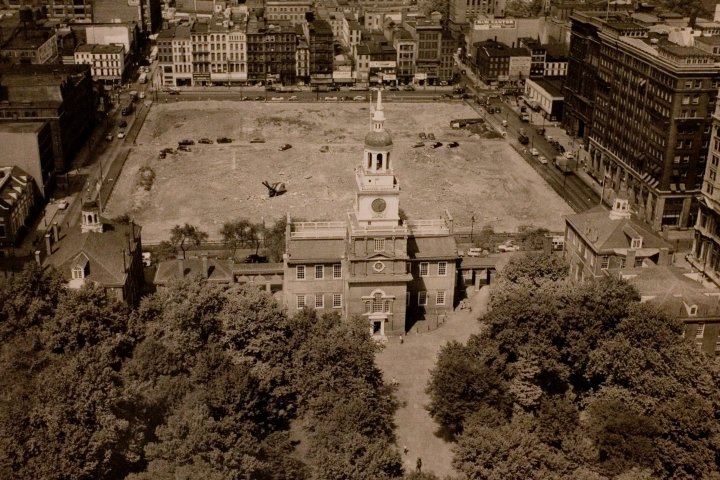 Independence Hall, and First Block of Independence Mall under construction, 1952.